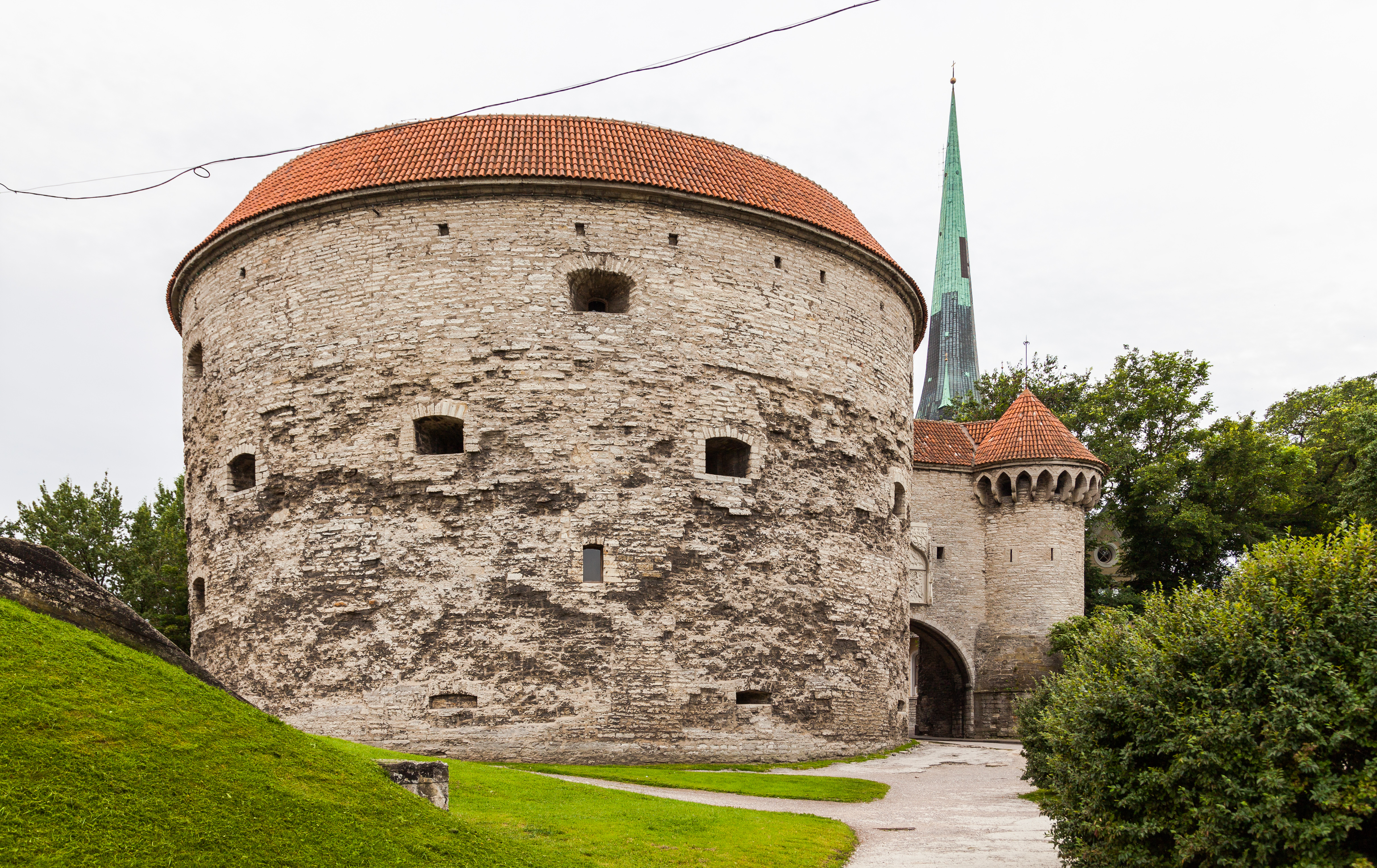 Fat Margaret, Tallinn, Estonia